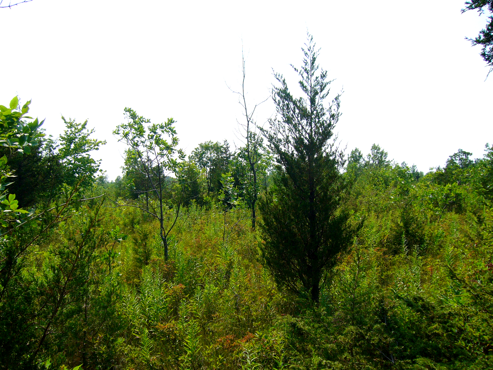 Prince Edward County Bird Observatory Scrubland